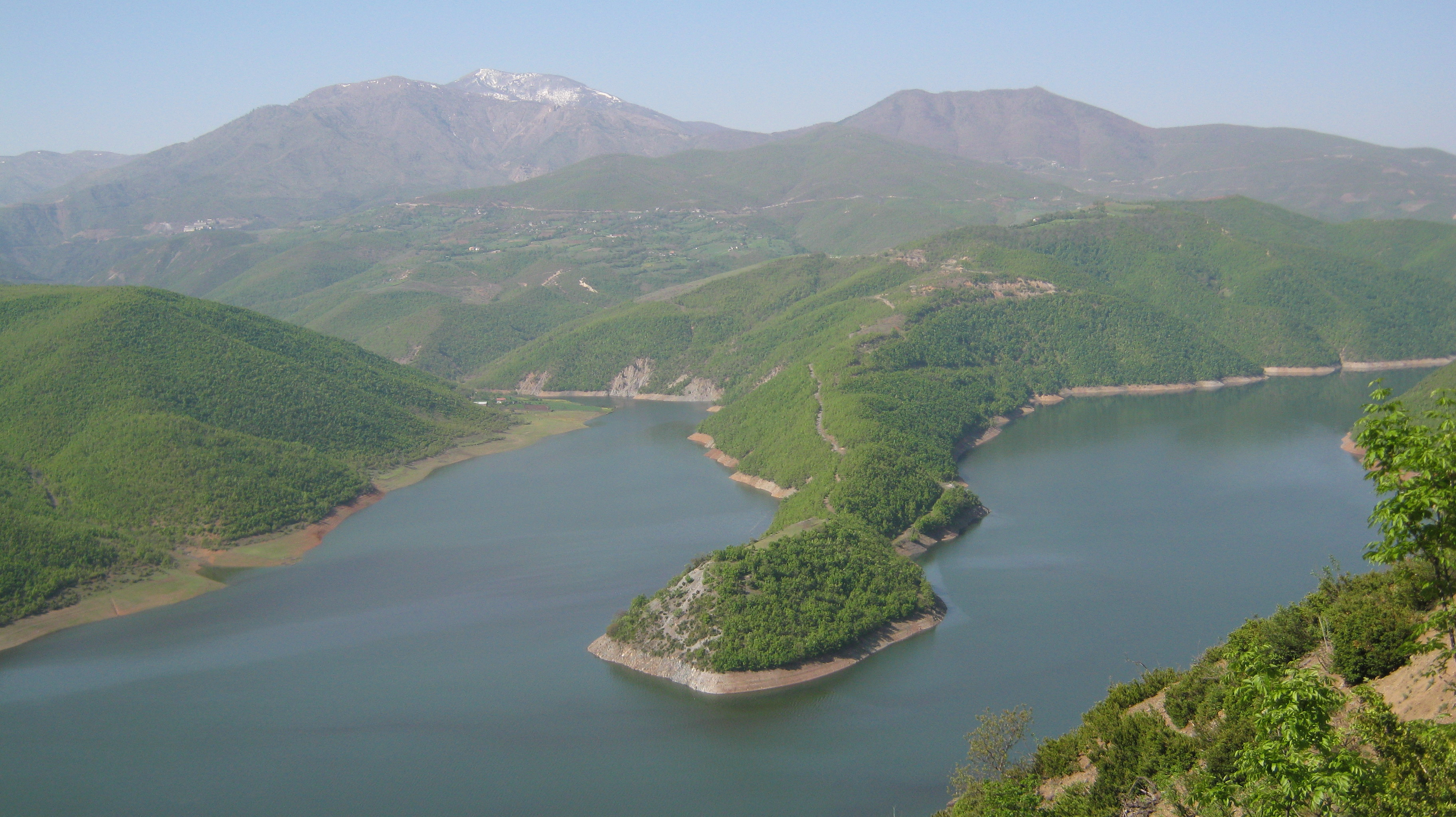 Liqeni i Fierzës